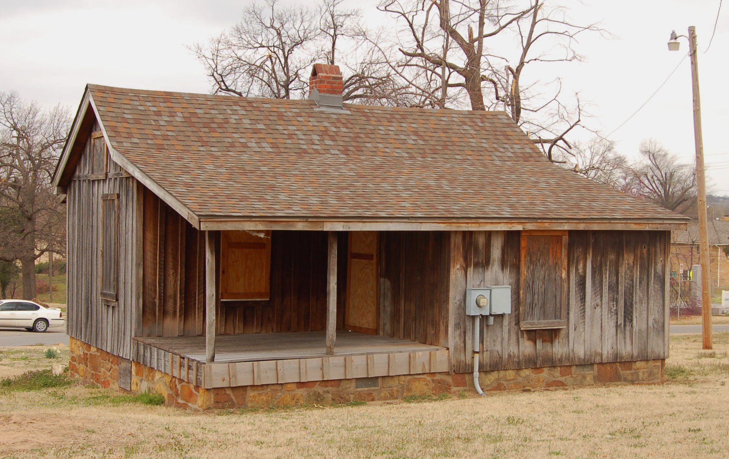 The Sylvester Morris House, Tulsa Oklahoma. Built in 1885, this is the oldest surviving house in Tulsa. It was originally located on the 400 block of North Cheyenne. It was moved to Owen Park for preservation.